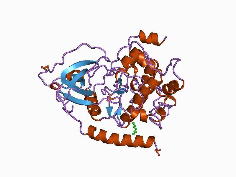 Cartoon representation of the molecular structure of protein registered with 1apm code.